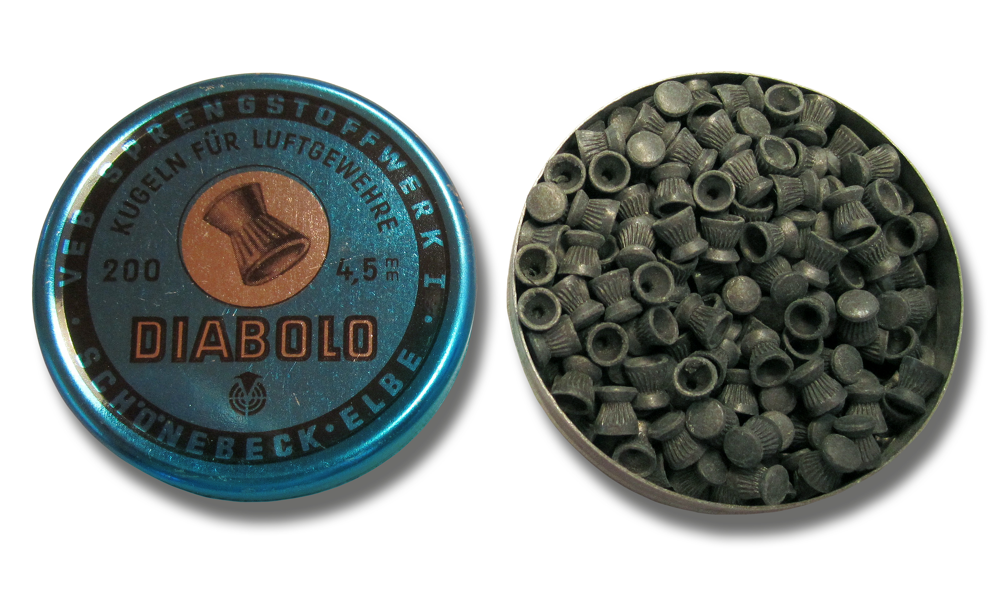 4.5 mm (.177) air gun pellets by VEB Sprengstoffwerk Schönebeck.